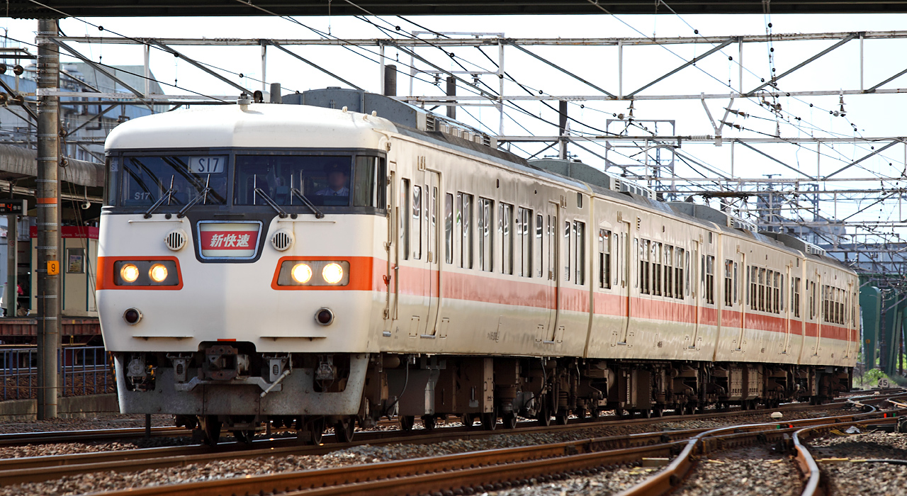 JNR 117 series EMU, belongs to the JR Central (Atsuta Stn. - Kanayama Stn.).